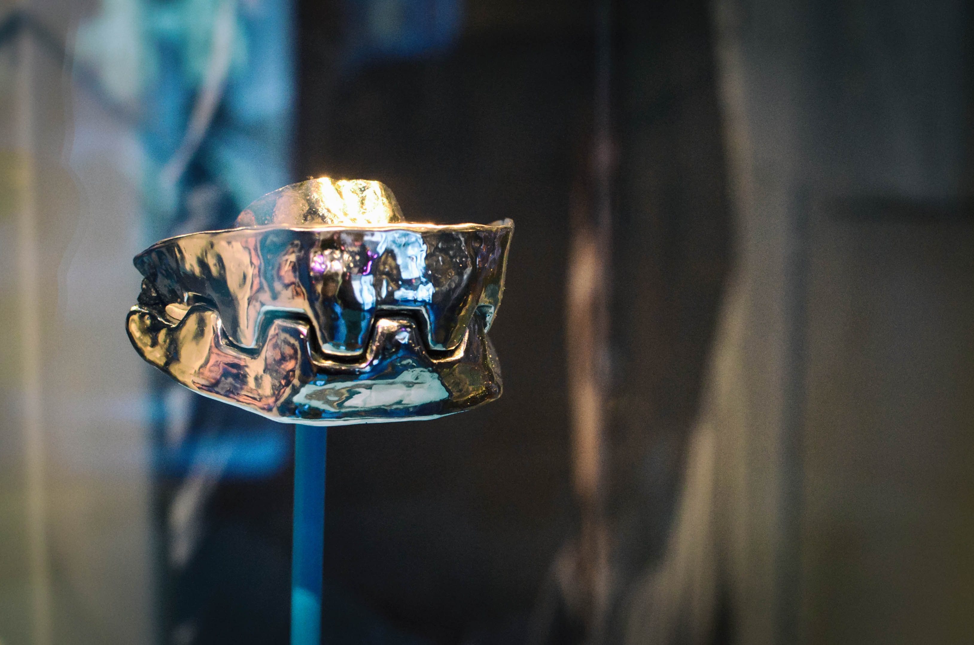 Steel teeth worn by Richard Kiel as the super-sized killer Jaws in The Spy Who Loved Me (1977). Displayed at the exhibition Exquisitely Evil: 50 Years of Bond Villains, International Spy Museum, Washington DC.